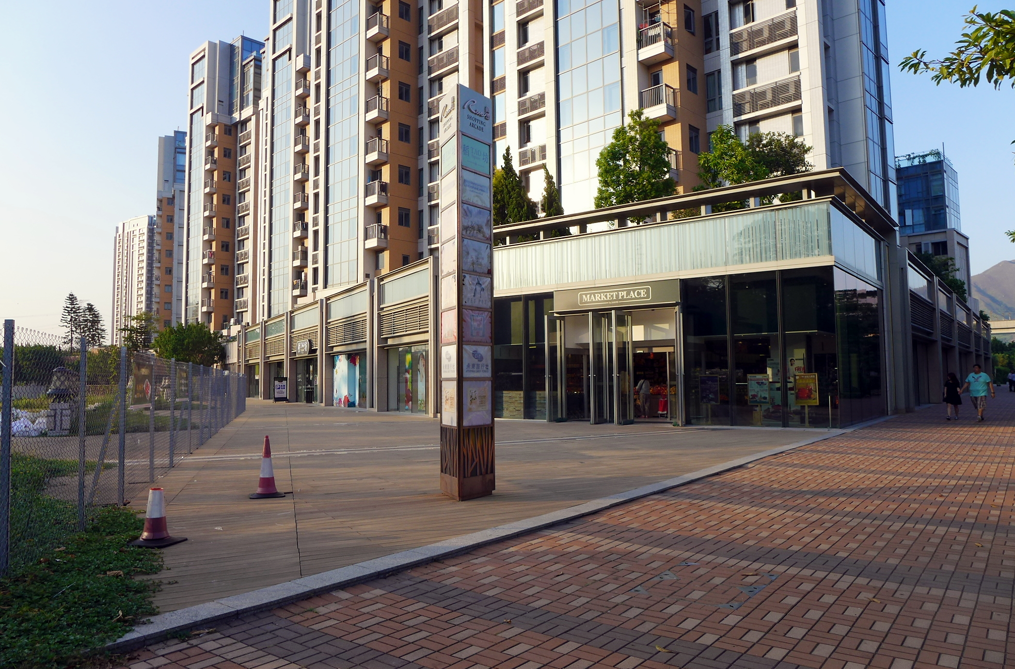 Riva Shopping Arcade